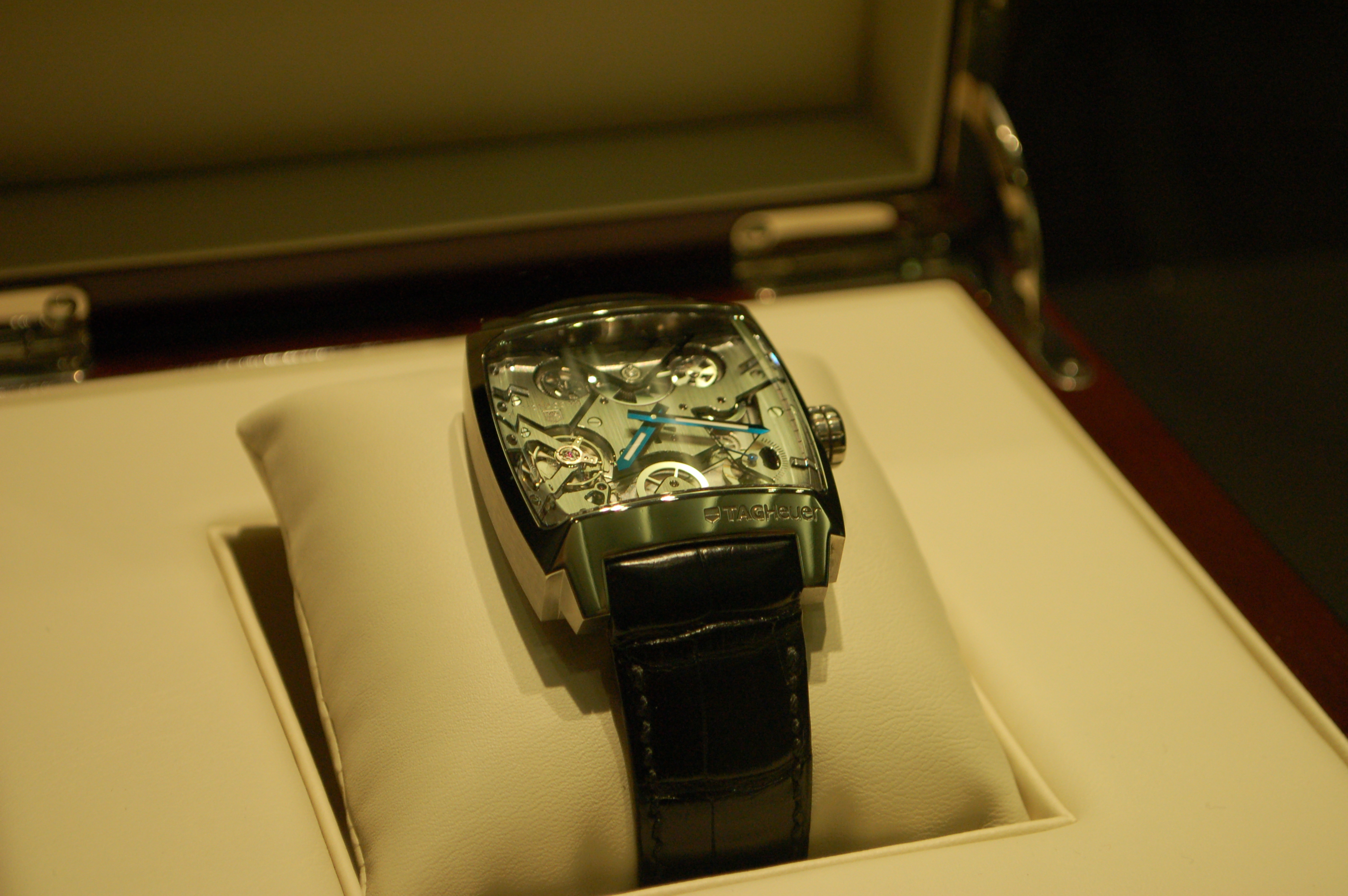 TAG Heuer Monaco V4, with belt driven calibre, on display at Athina Fair 2009.